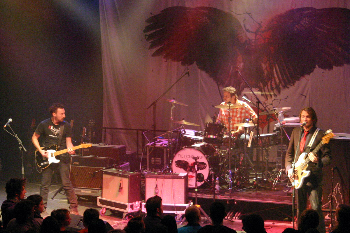 Fiction Plane playing live in Cologne (October 2010)